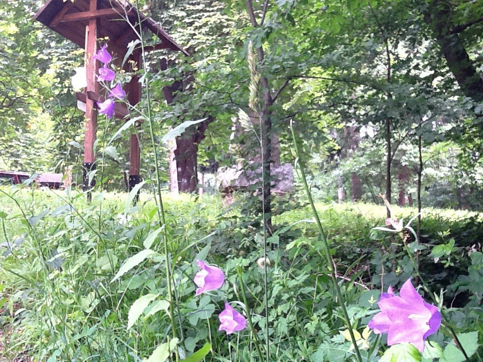 Flowers in Pusztabánya, in the Southern Hungarian Mecsek mountains, at the remains of 18th century glassblowers ovens.